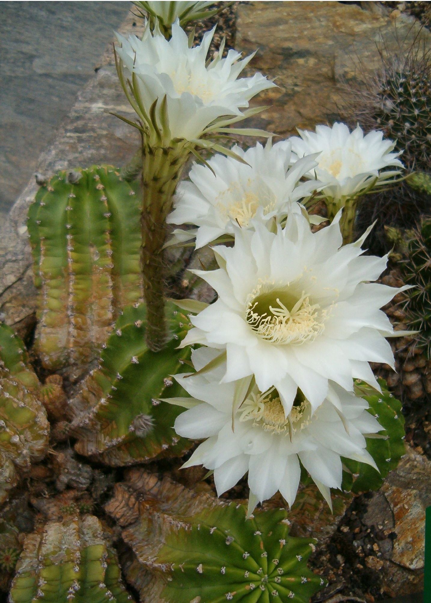 Habitus and Flowers Location: Botanical Gardens Berlin